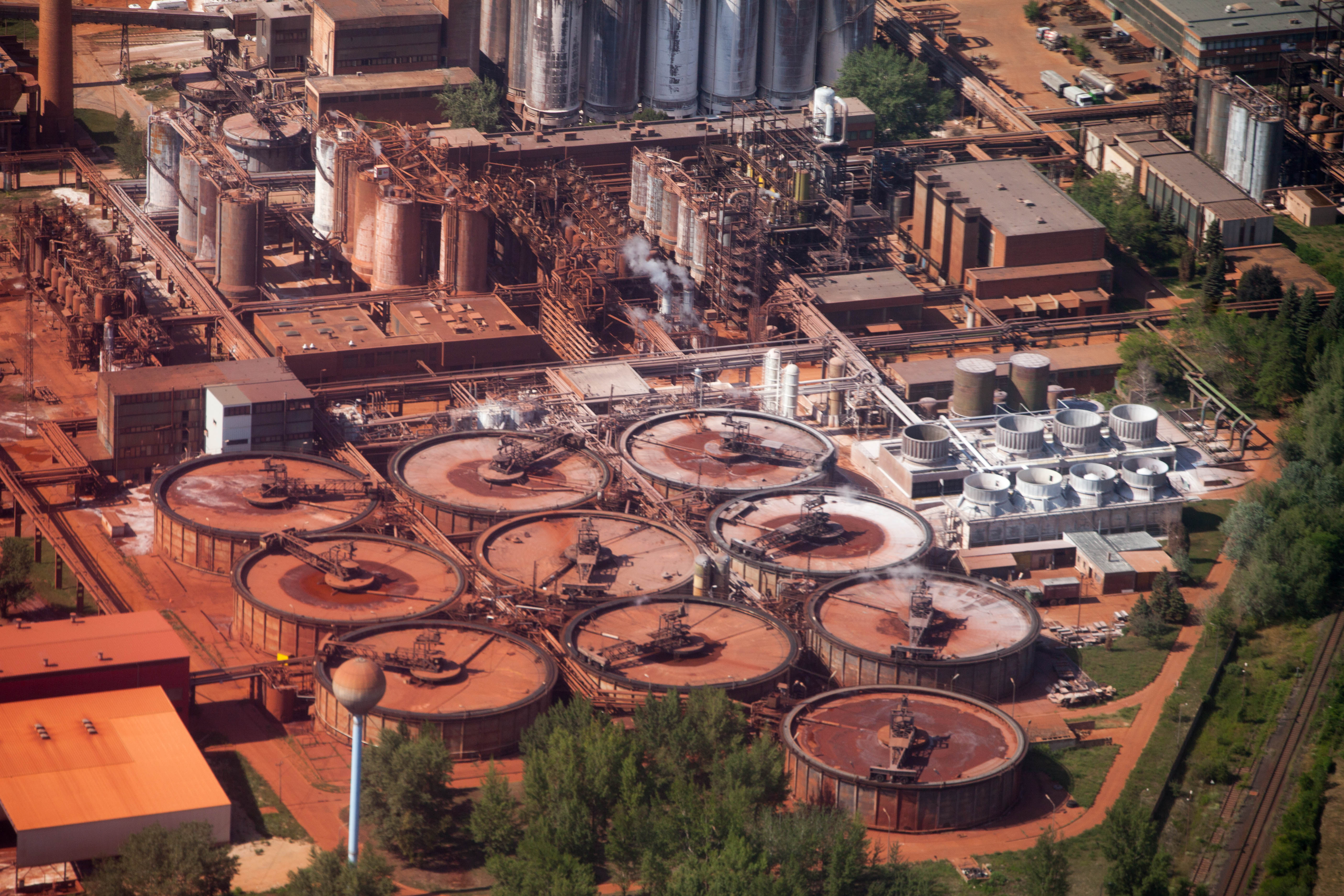 Factory of the MAL Zrt. (Hungarian Aluminium Industries) in Ajka, Hungary